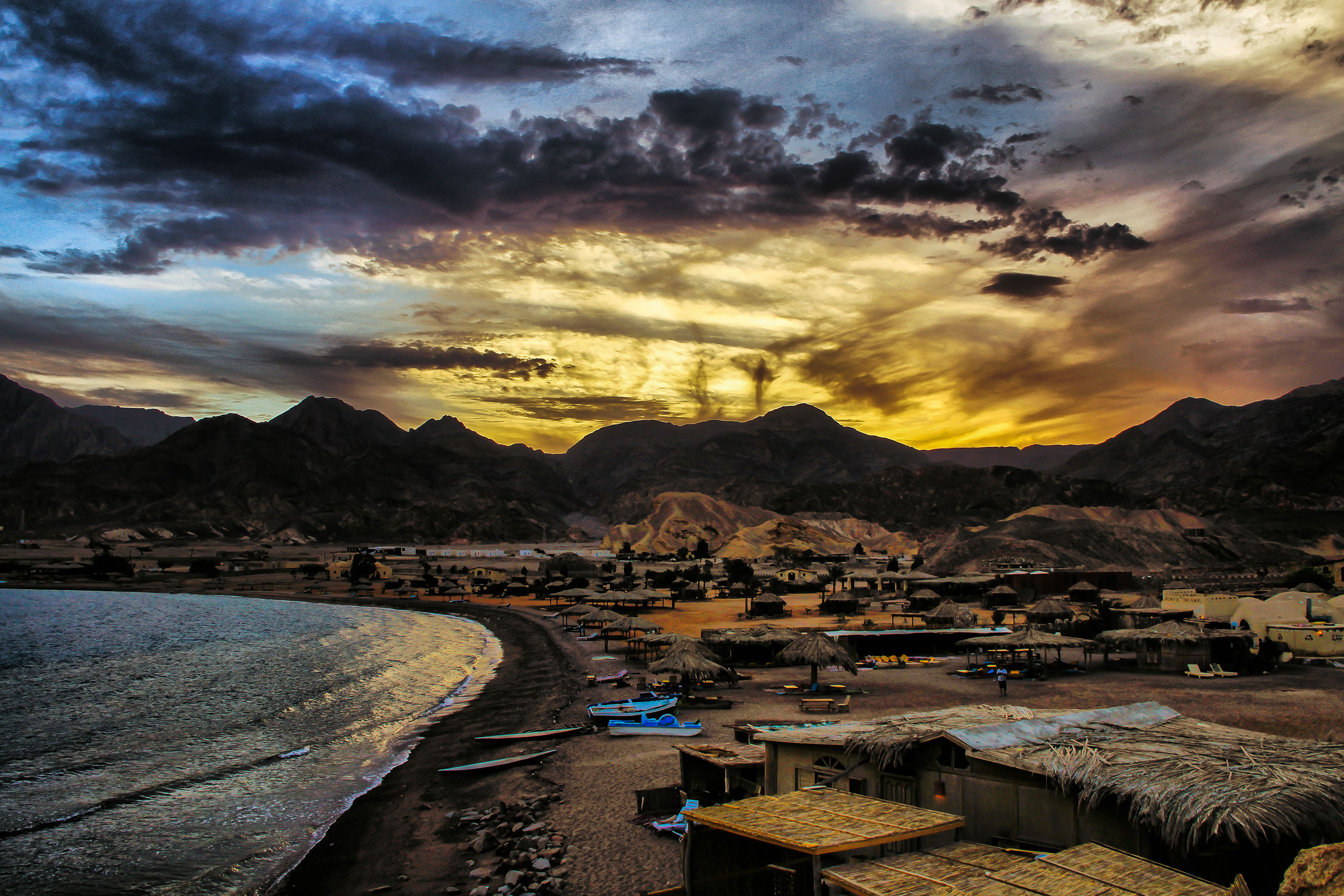 After the 30-minute drive north of Nuweiba, will arrive at the Bedouin camp, port access to the site of the head of Satan for diving. And a short distance from the beach in this area, you will be able to see the picturesque mountains submerged in the water, caves and valleys and plains. It also will delight to see hard corals, octopus, fish and fish Albafr Jerober Lunar. The coolest of it, the whole anemones in various forms and colors of red, green and purple. Get ready to see the stunning natural scenery and impressive never seen before. Reference to it is not recommended goers this site and plunge into the water only by professional divers to the difficulty of the dive.